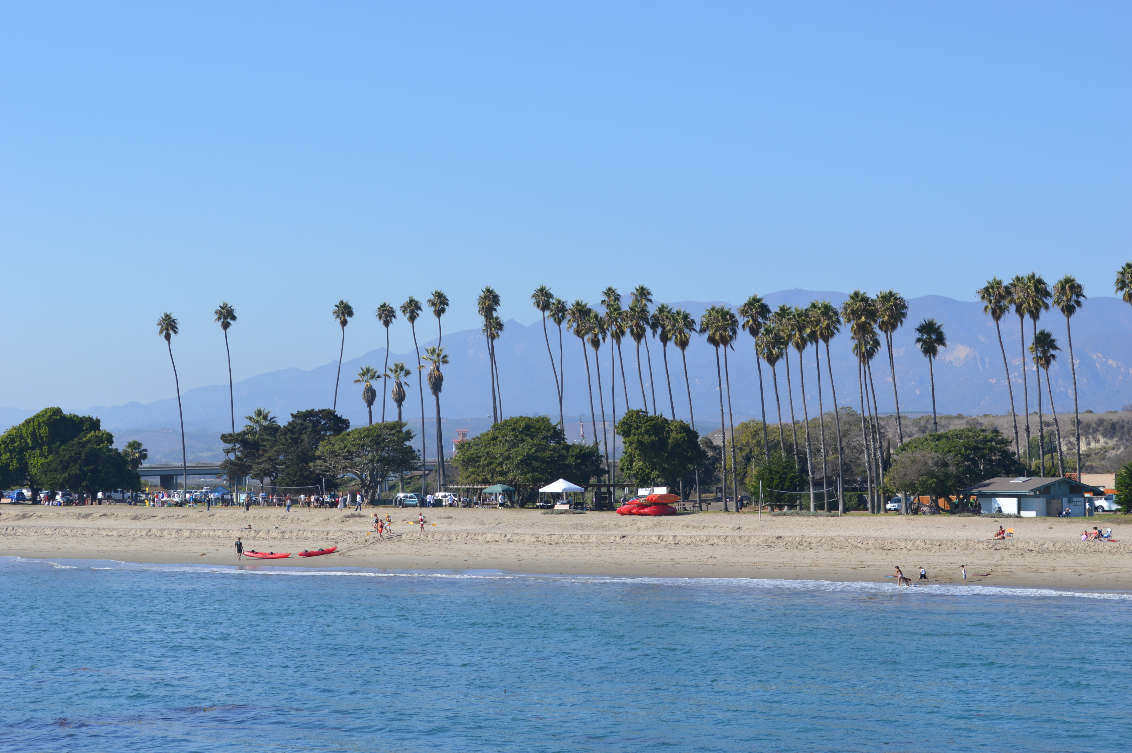 View of Goleta Beach from the pier. You can see part of the Santa Barbara Municipal Airport through the palm trees. Behind the airport is the Santa Ynez Mountains. The bridge on the left is California State Route 217 that connects U.S. Route 101 and UCSB.